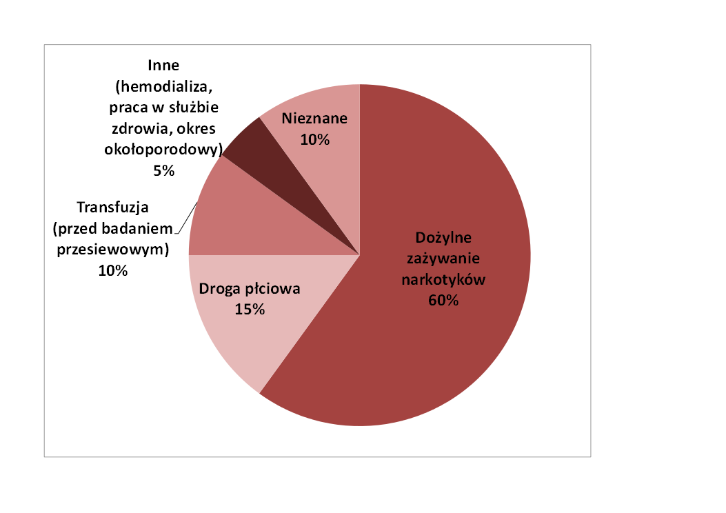 Created from CDC figures (